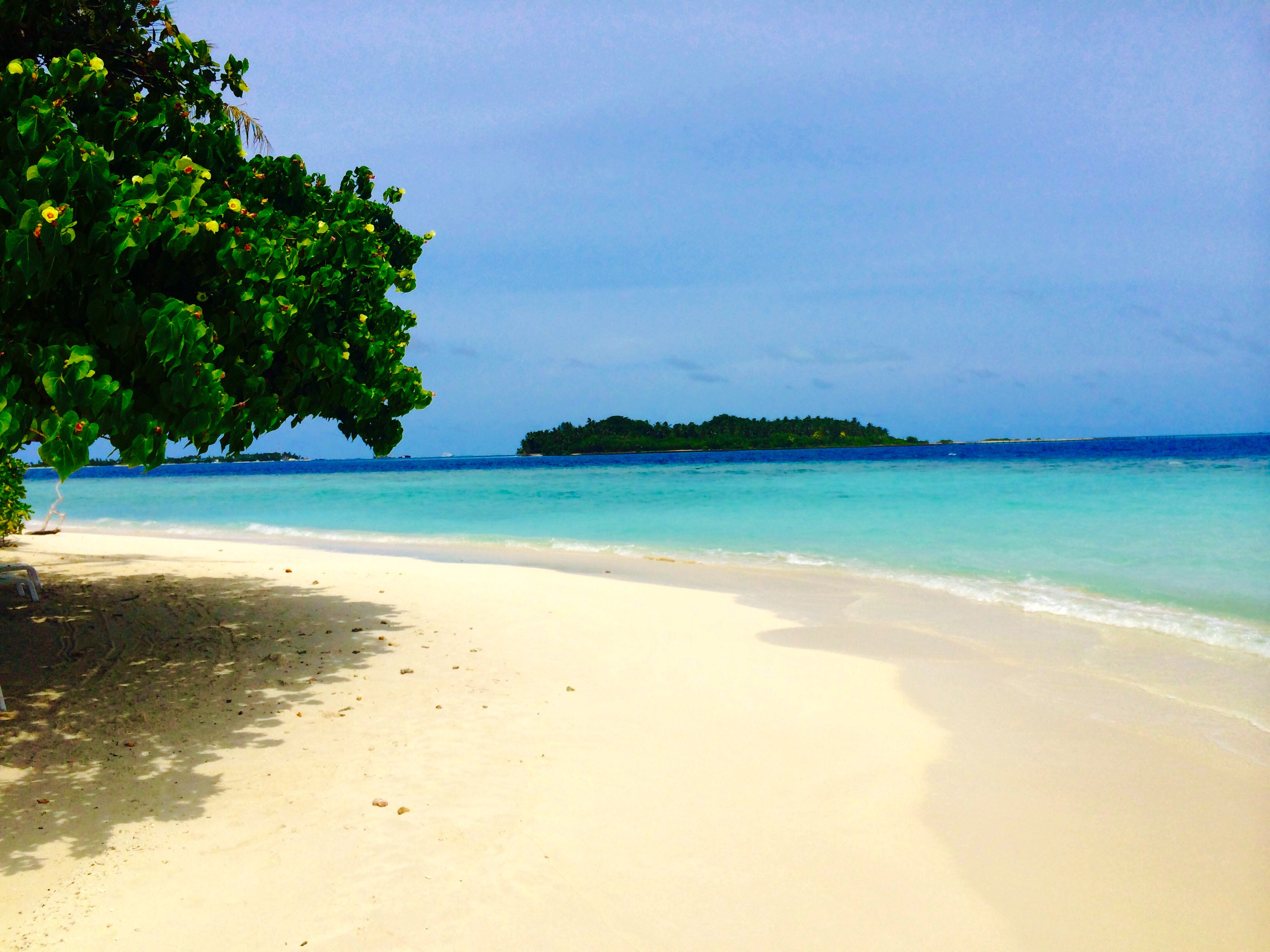 On Biyadhoo Island looking over to neighboring Villvaru Island.